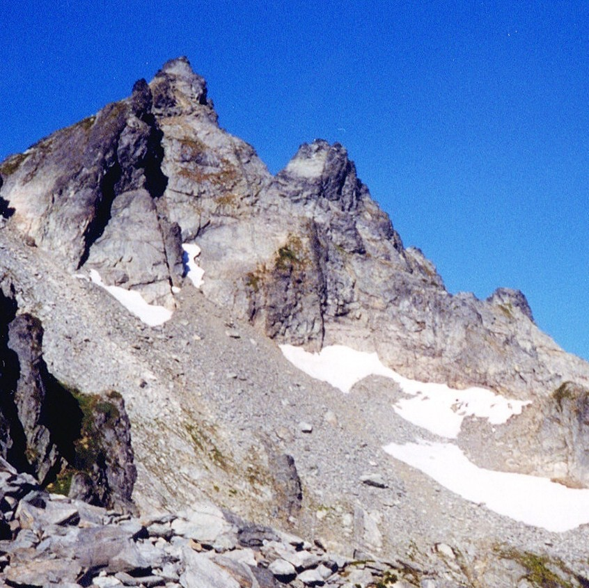 The Triad approach